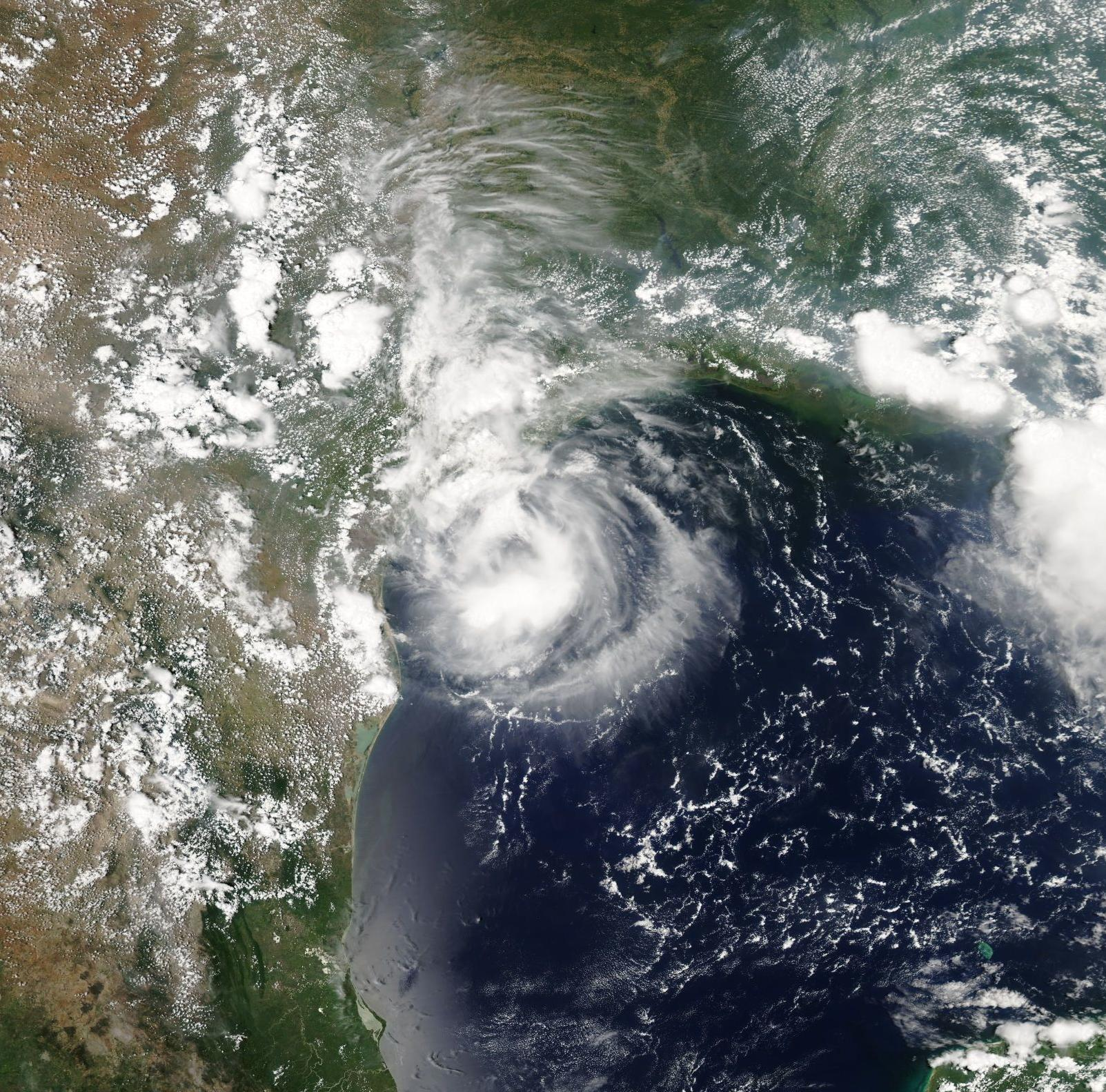 Tropical Depression Bertha at August 8th, 2002.